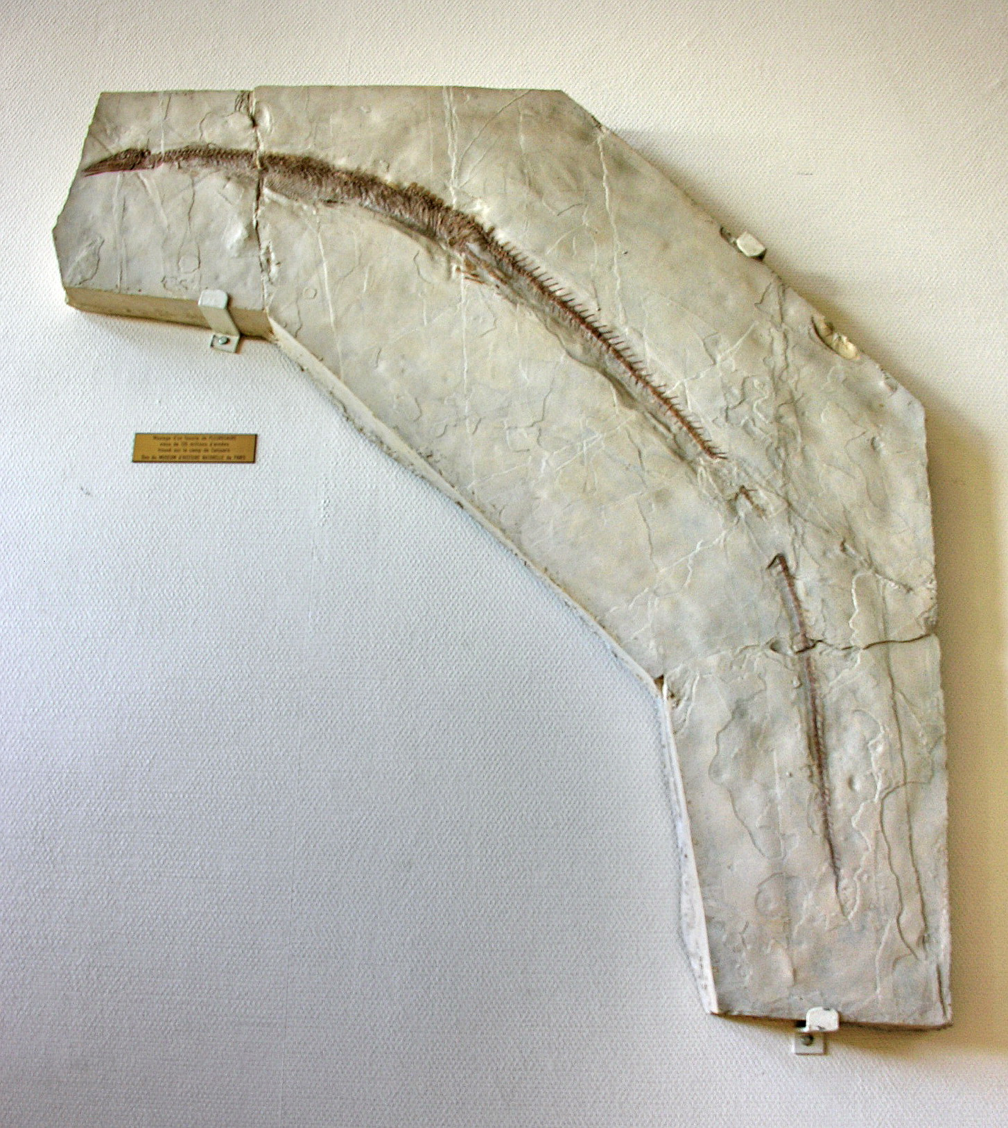 Canjuers military camp : Pleurosaurus ginsburgi fossil